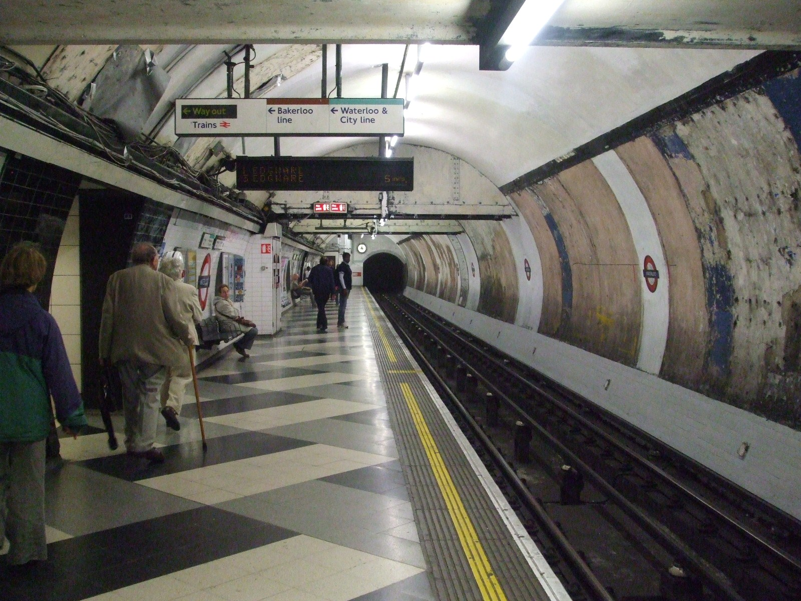 Waterloo tube station Northern line northbound platform looking south